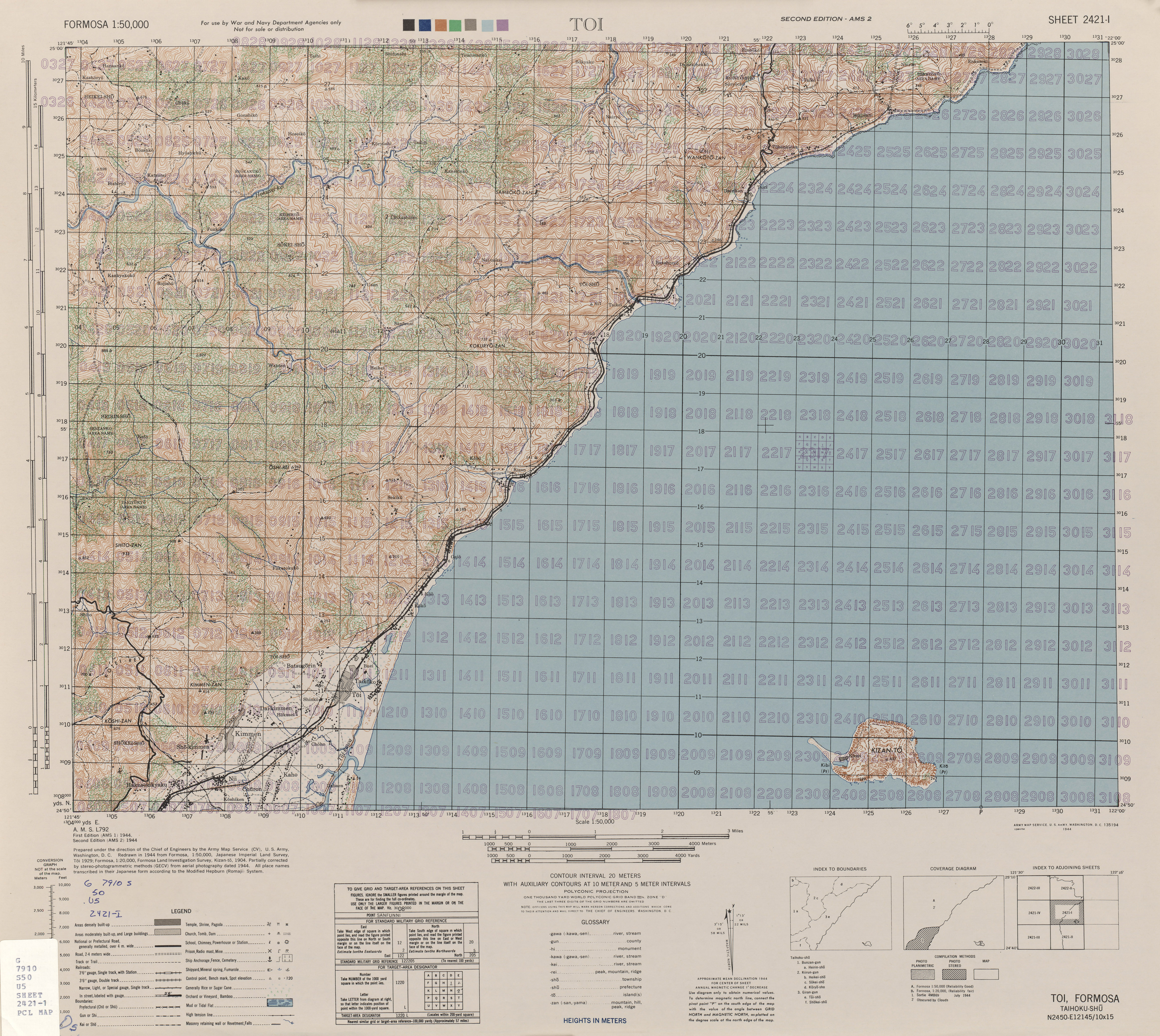 Map of Toucheng (Tōi), Yilan, Taiwan from Formosa (Taiwan) 1:50,000 AMS Series L792